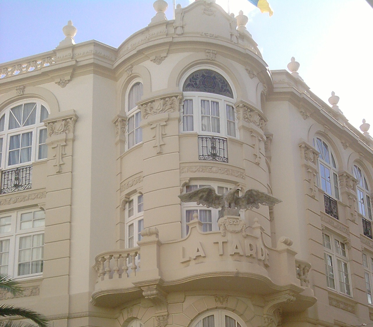 The headquarters building of the Court of Auditors of the Canary Islands originally housed a tobacco factory "El Águila" and later the newspaper La Tarde.